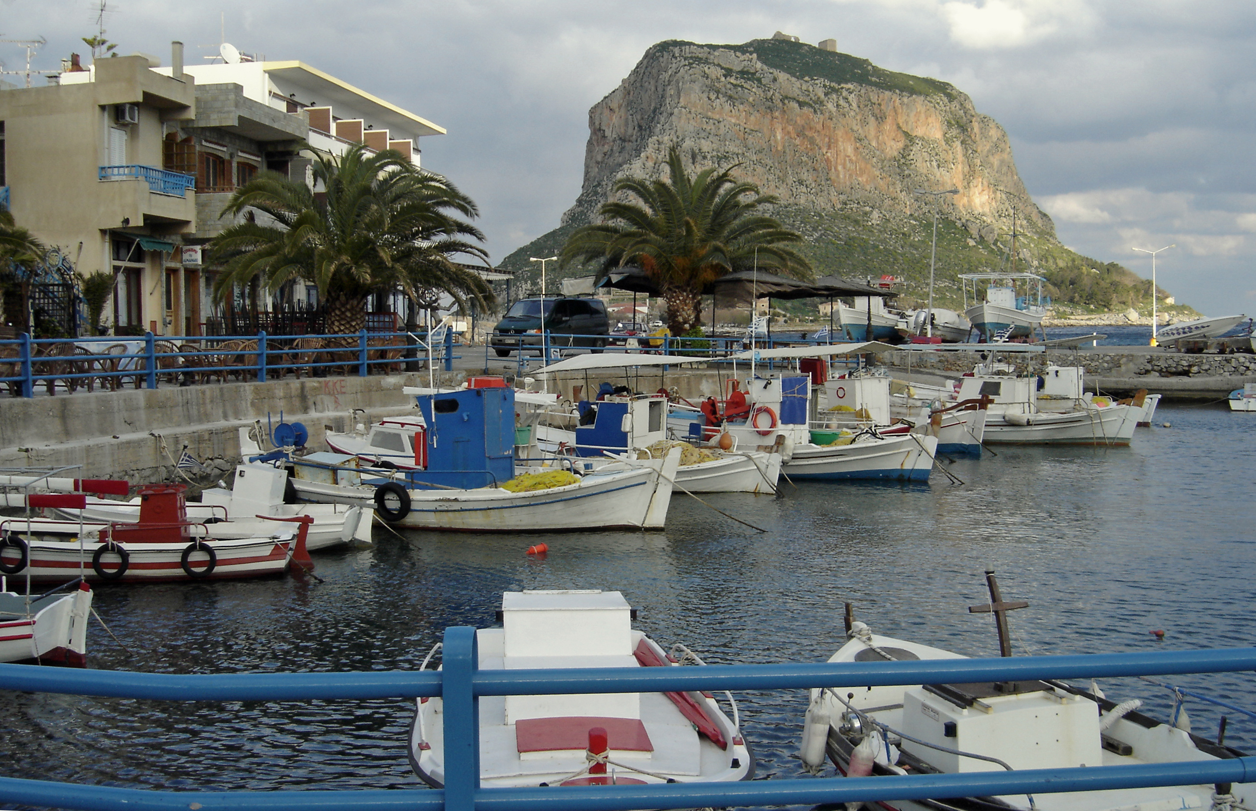 Rock of Monemvasia. Monemvasia, Greece.